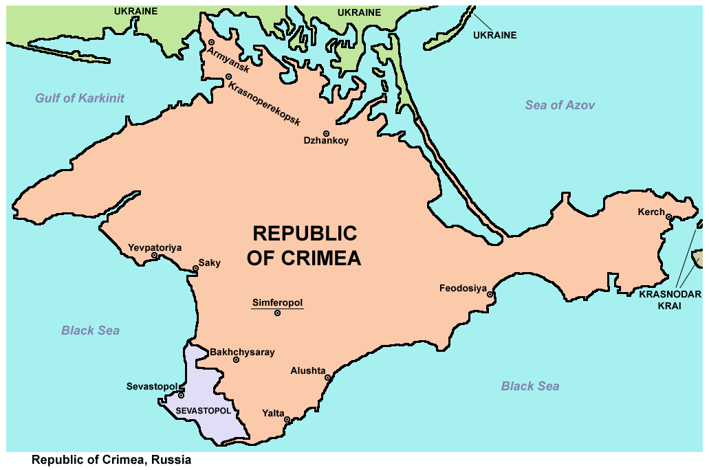 Map of the Republic of Crimea and of Sevastopol, Russia.